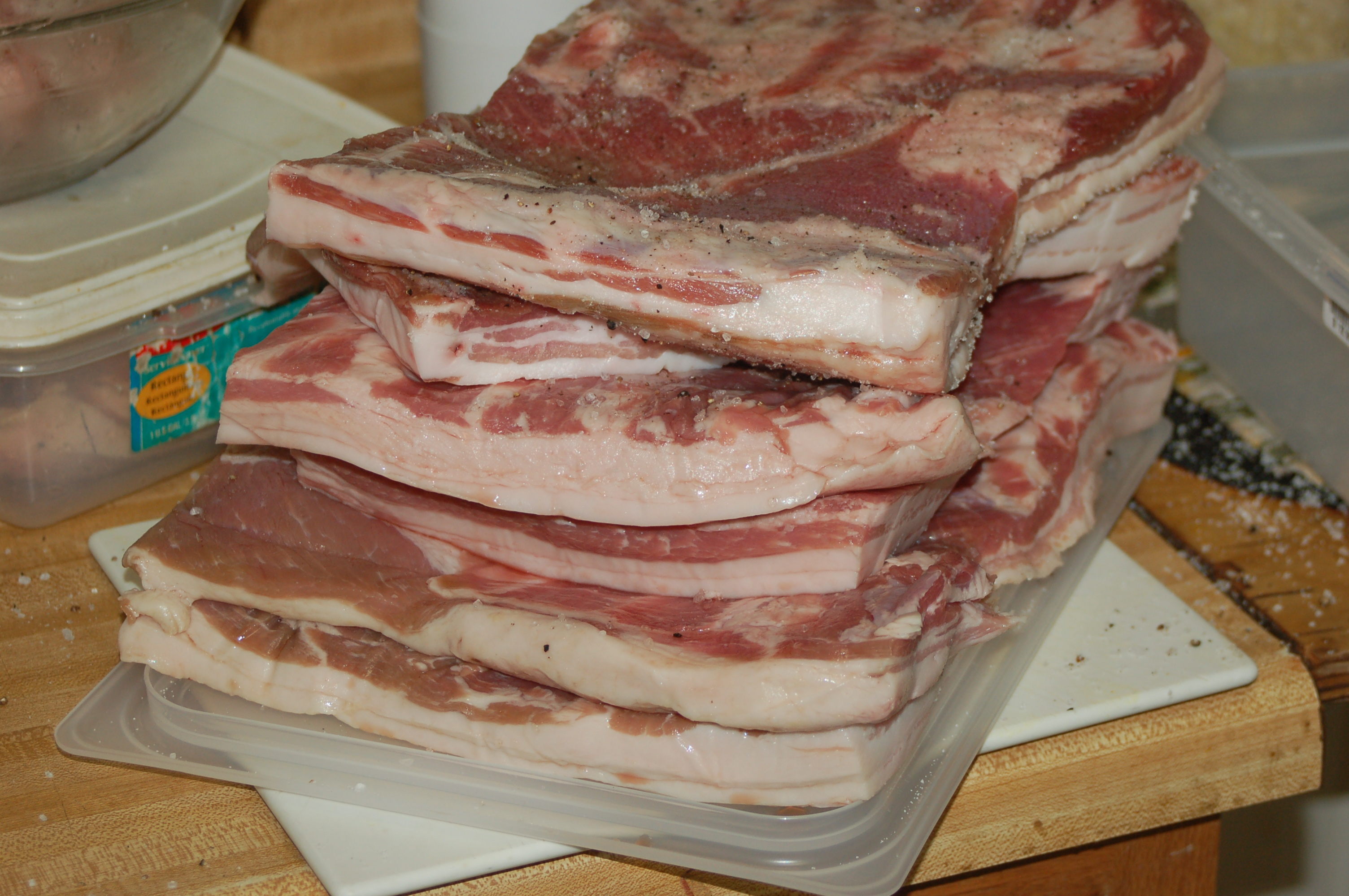 Stack-O-Meat